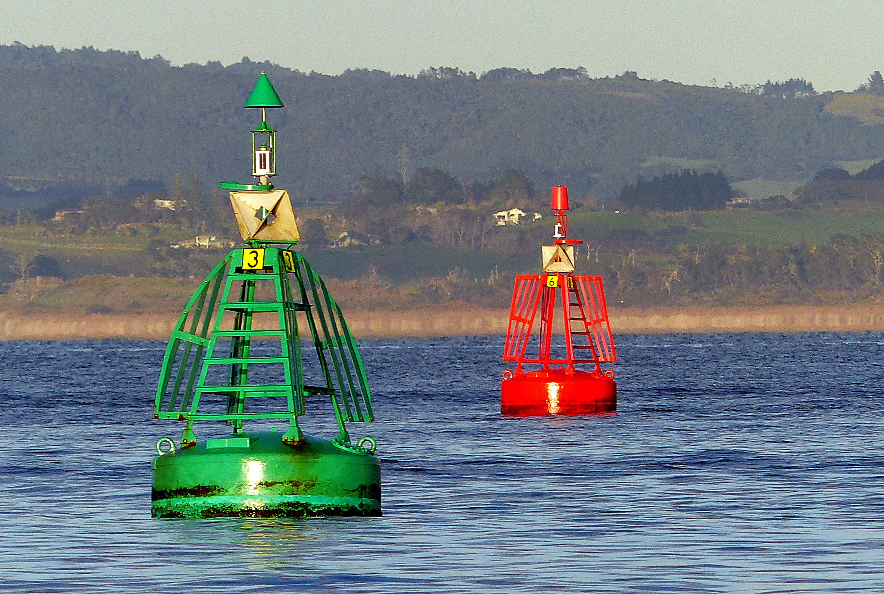 Channel Markers These show well-established channels and indicate port (left) and starboard (right) sides of the channels. Port marks A red can shape. At night, a red flashing light may be shown. Starboard mark A green conical shape. At night a green flashing light maybe shown. Coming In Rule When entering harbour (up stream) the red port mark should be kept on the boat's port (left) side the green mark on the boat's starboard (right) side. Going Out Rule When leaving harbour (down stream) the red port mark should be kept on the boat's starboard (right) side and the green mark on the boat's port (left) side.